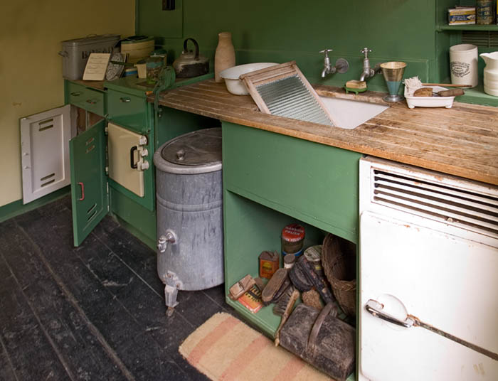 Amersham Prefab Kitchen at Chiltern Open Air Museum - showing Belling cooker, Ascot wash heater & fridge. Author: Antony McCallum